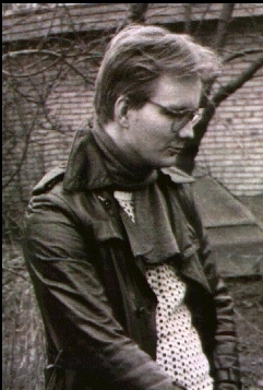 A picture of Climate Scientist Peter Andreas Thejll, back when he had some hair.